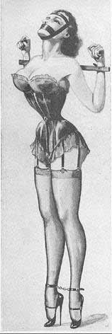 Painting of S/M sexuality